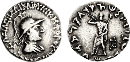 Coin of the Indo-Graeco king ArchebiosCirca 90-80 BC. AR Tetradrachm (9.69 g, 12h). Bilingual series.BASILEWS DIKAIOU NIKHFOROU ARCEBIOU, diademed and draped bust right, wearing crested helmet adorned with bull's horn and ear"Maharajasa dhramikasa jayadharasa Arkhebiyasa" in Karosthi, Zeus Bremetes standing facing, holding sceptre in left hand; monogram to lower right.